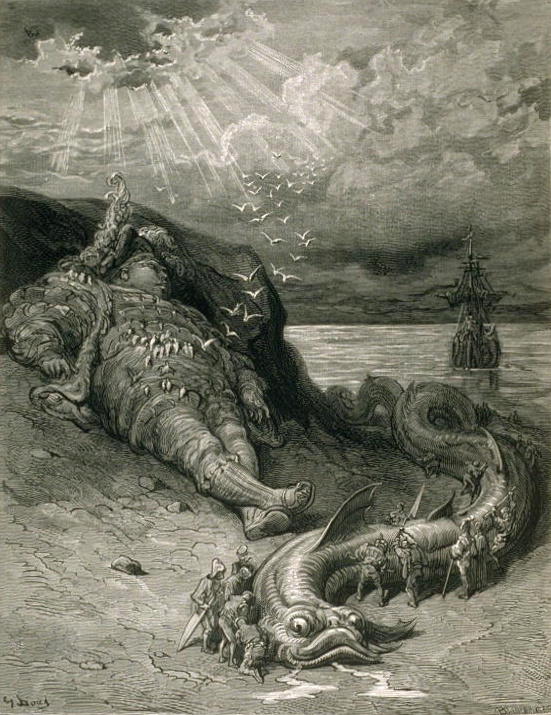 Illustration of Pantagruel for the Fourth Book in the Pantagruel and Gargantua series by François Rabelais, published in Oeuvres de Rabelais (Paris: Garnier Freres, 1873),vol. 2, Book IV, ch. XXXV, opposite title page in the book.